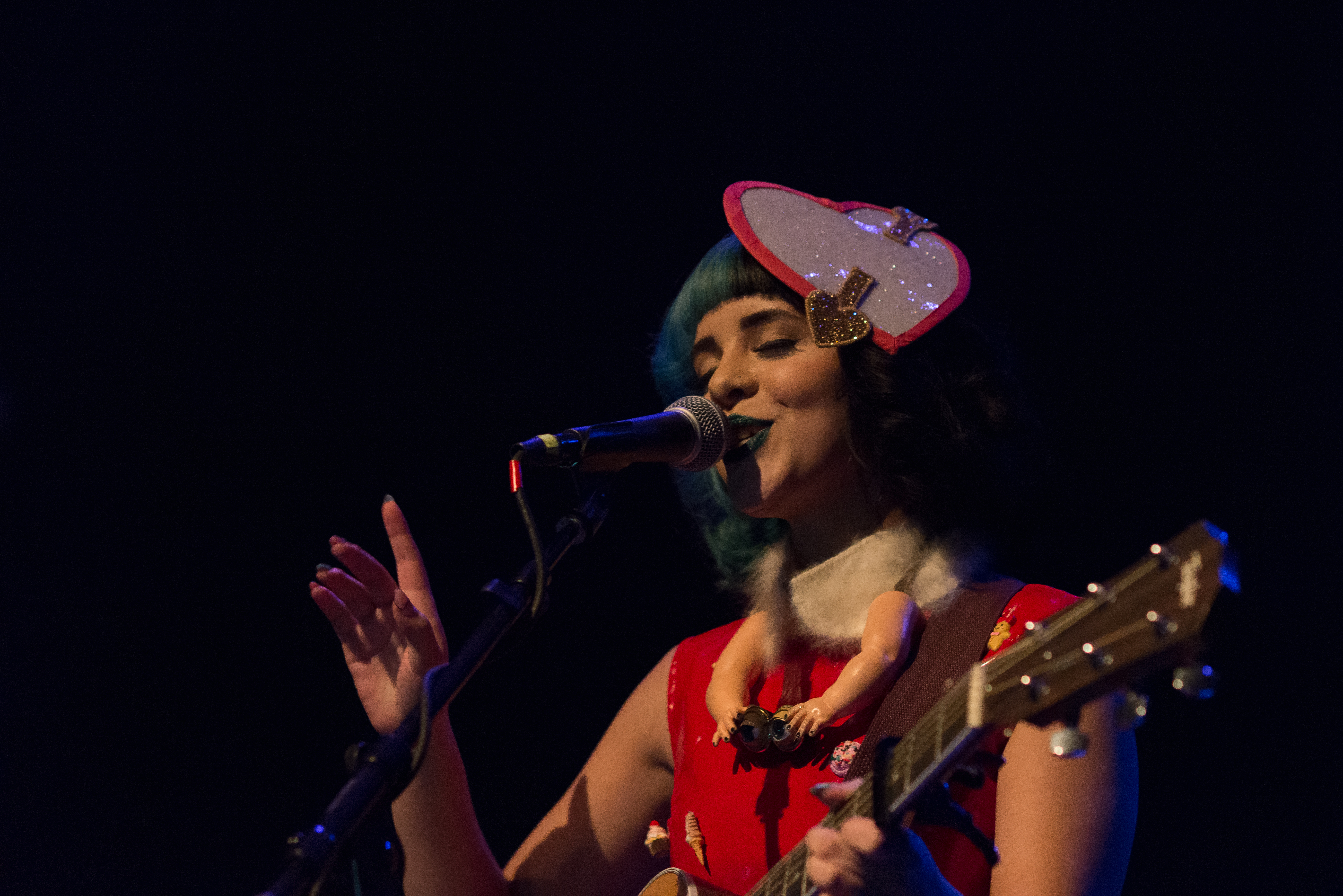 Melanie Martinez at Gramercy Theater, 2/15/2014